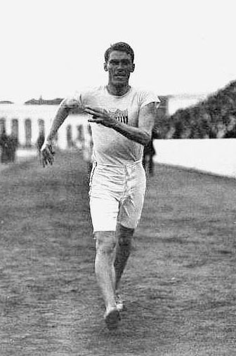 George V. Bonhag of the Irish-American Athletic Club winning the 1,500 meter walking race in the 1906 Olympic Games